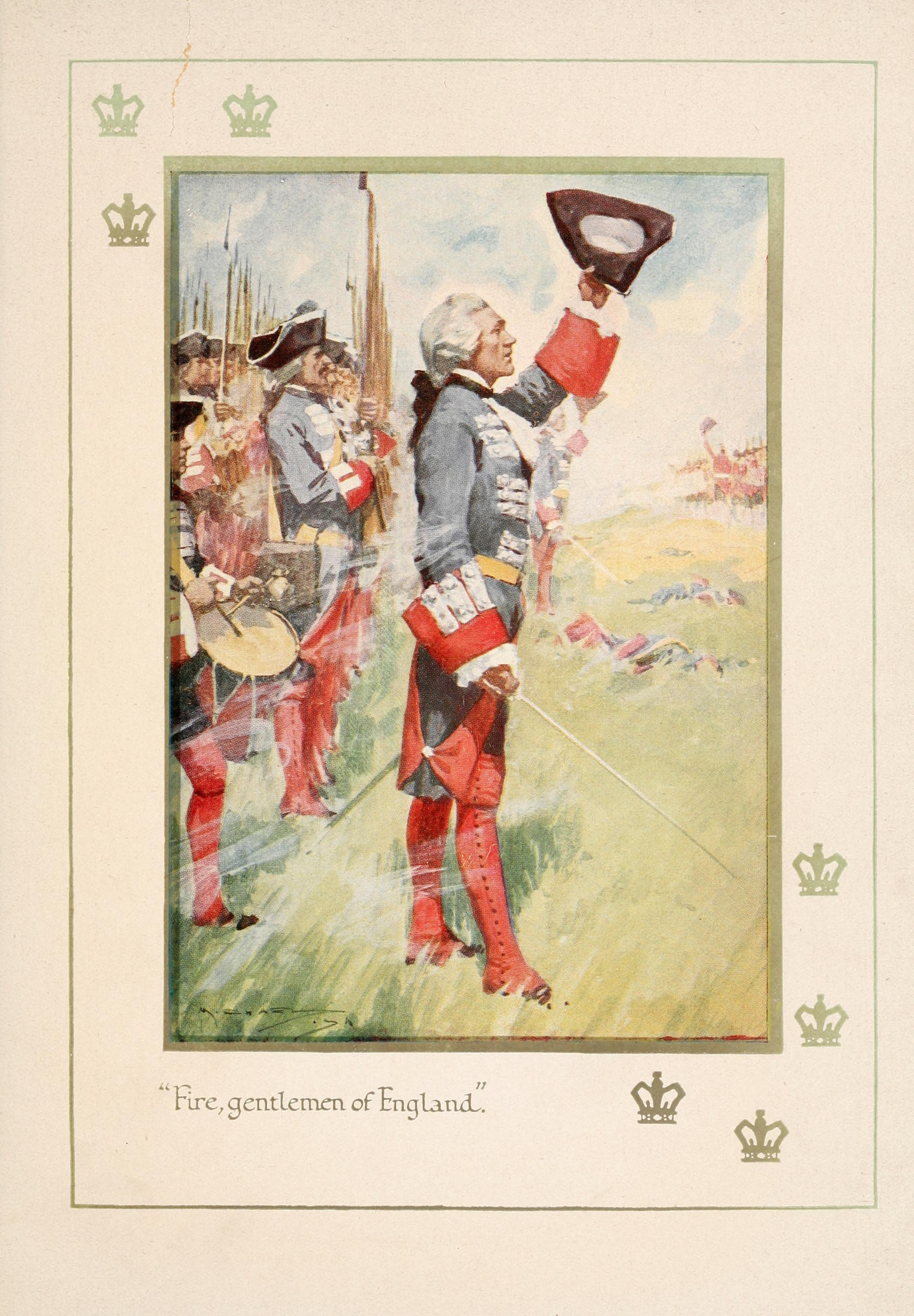 Published [c1912] Topics France -- History Publisher New York : Hodder & Stoughton, George H. Doran company Pages 622 Possible copyright status NOT_IN_COPYRIGHT Language English Call number 564148 Digitizing sponsor MSN Book contributor New York Public Library Collection newyorkpubliclibrary; americana Full catalog record MARCXML [Open Library icon]This book has an editable web page on Open Library.